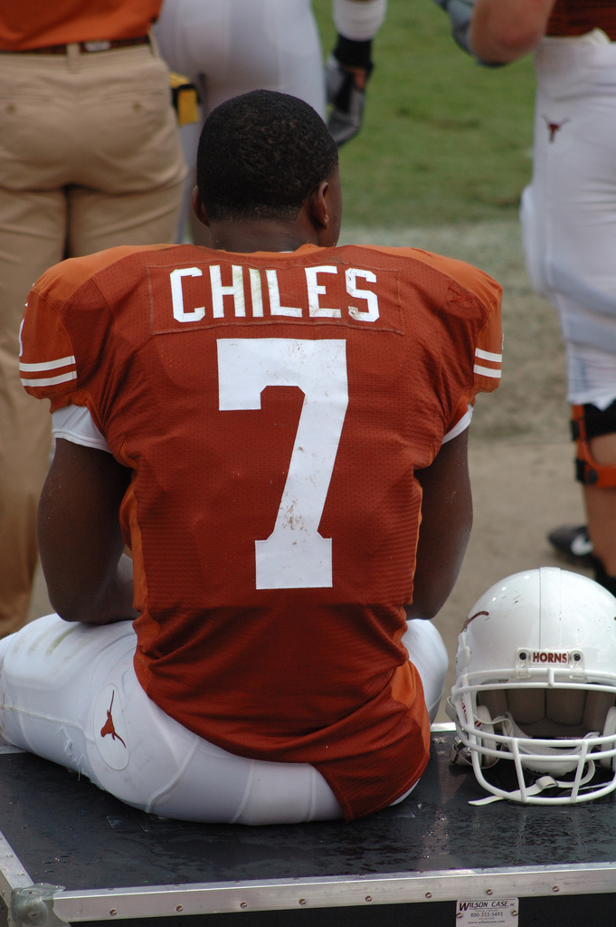 John Chiles on the sidelines of KSU vs UT 2007